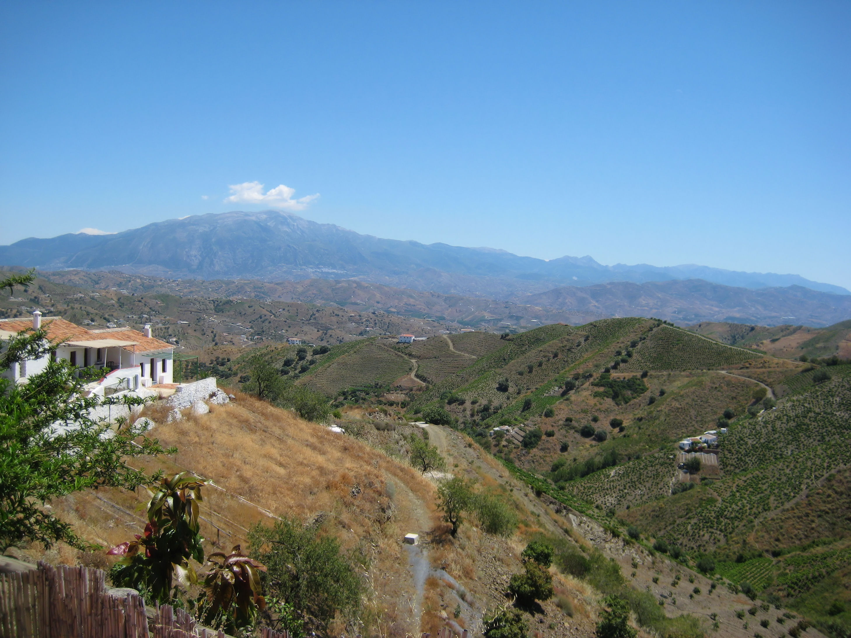 Vinyards in Cútar, Málaga, Spain